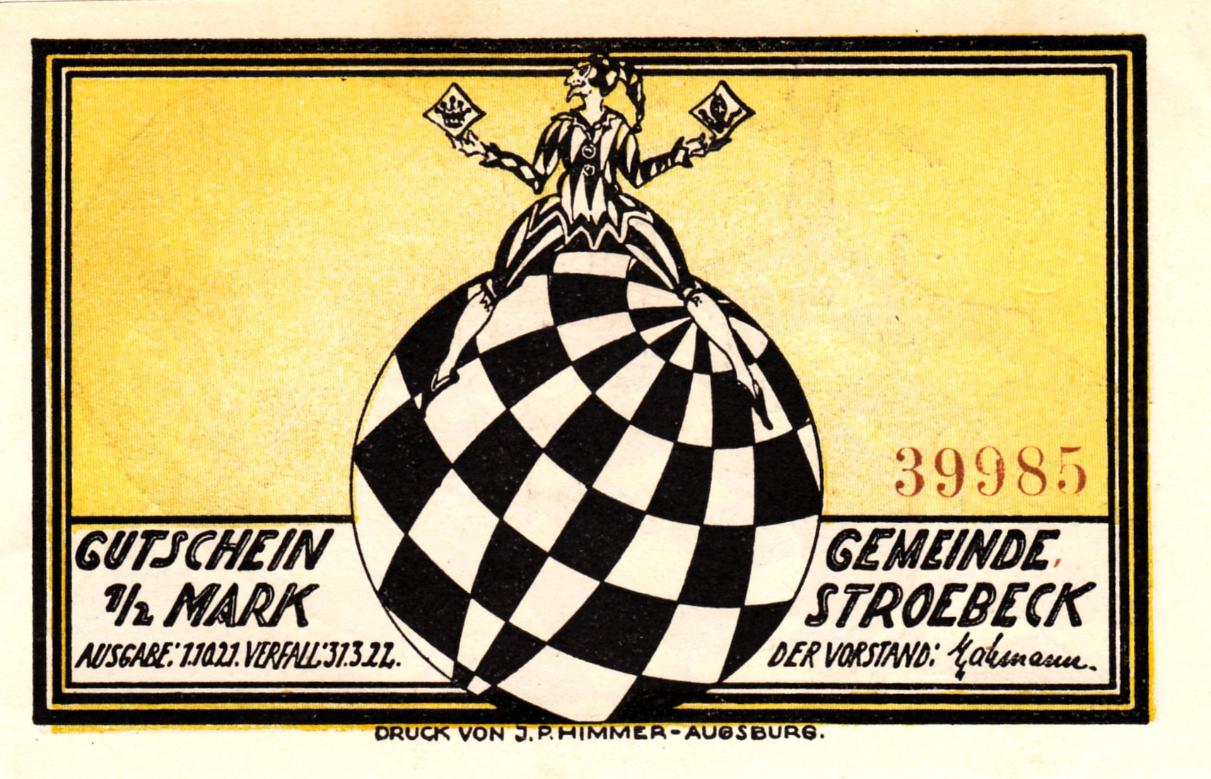 Notgeld from 1921 Community Stroebeck valid between 1.10.1921 and 31.03.1922 Printed by J. R Himmer in Augsburg